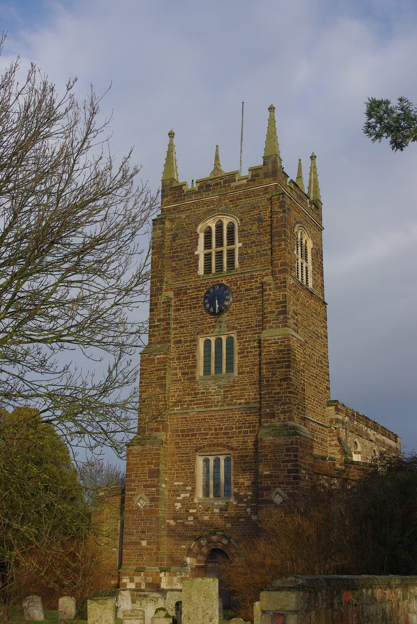 Parish church of St Edmund or St James, Blunham, Bedfordshire, seen from west-southwest